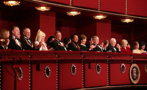 President George W. Bush and Laura Bush attend the Kennedy Center Honors Gala at the John F. Kennedy Center for the Performing Arts in Washington, D.C., Sunday, Dec. 3, 2006. Pictured with the first couple are Vice President Dick Cheney, Lynne Cheney and the honorees. From left, they are musical theater composer Andrew Lloyd Webber; film director Steven Spielberg, country singer and songwriter Dolly Parton, conductor Zubin Mehta and singer and songwriter William "Smokey" Robinson.